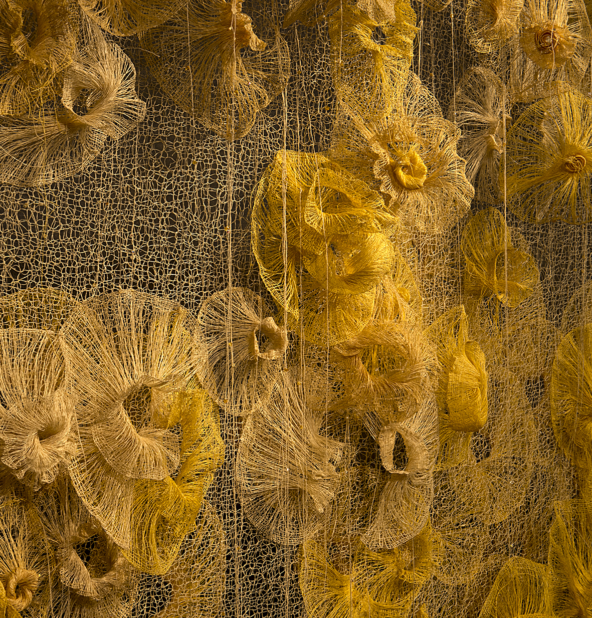 Margarida Reis, detail of the artwork Escritas do Sol, 2015